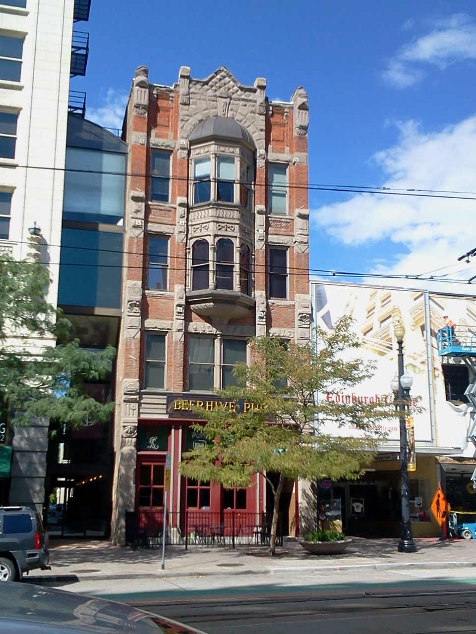 Daft Block, 128 S. Main St. Downtown